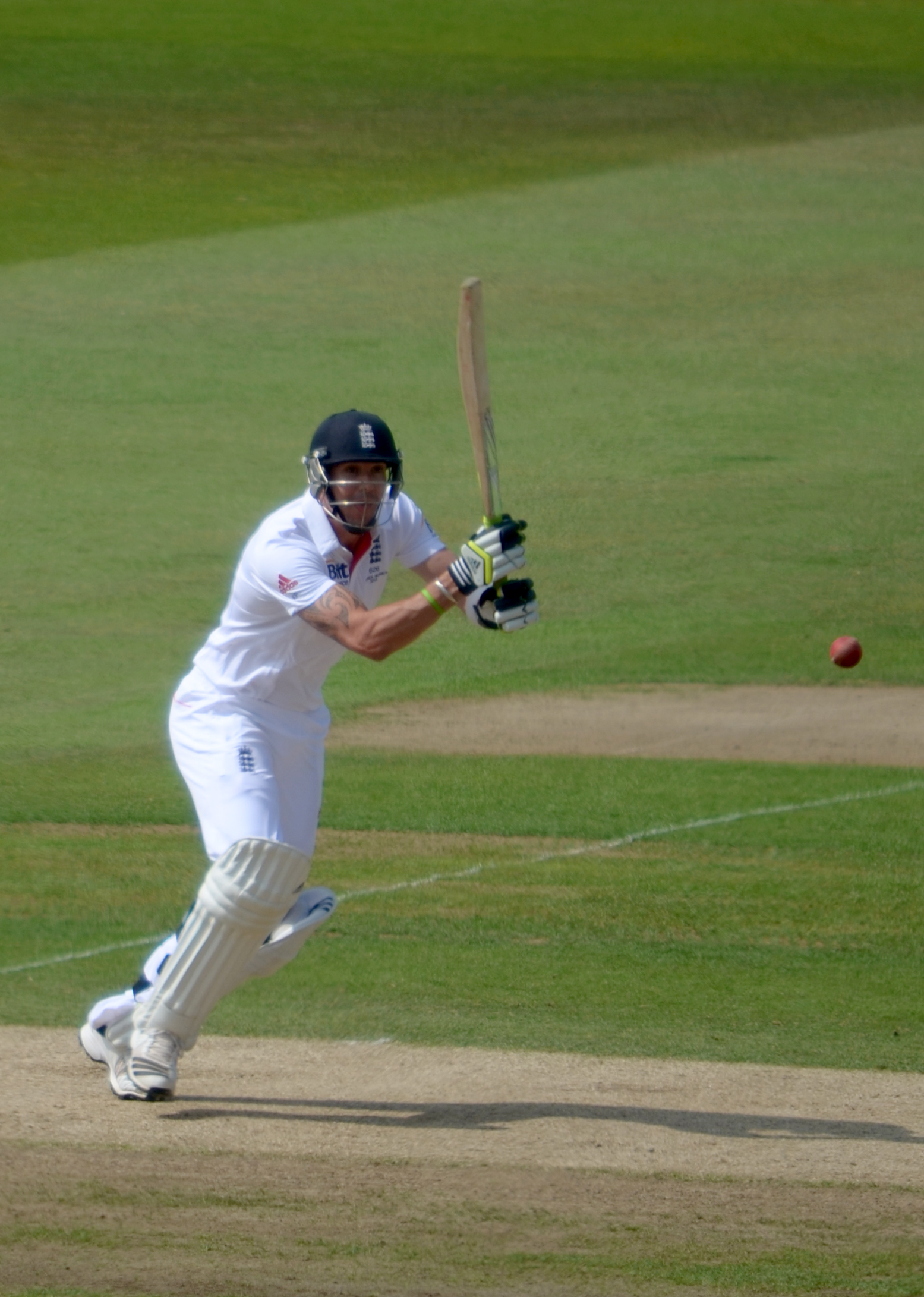 England batsman Kevin Pietersen plays at shot on the morning of the 3rd day of the 1st Test of the 2013 England v Australia Ashes series at Trent Bridge, Nottingham.